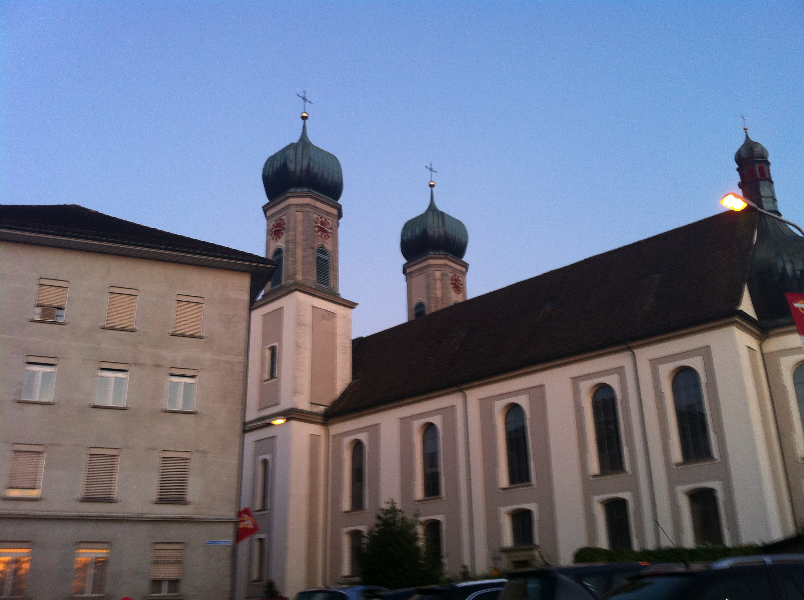 Kirche Lachen